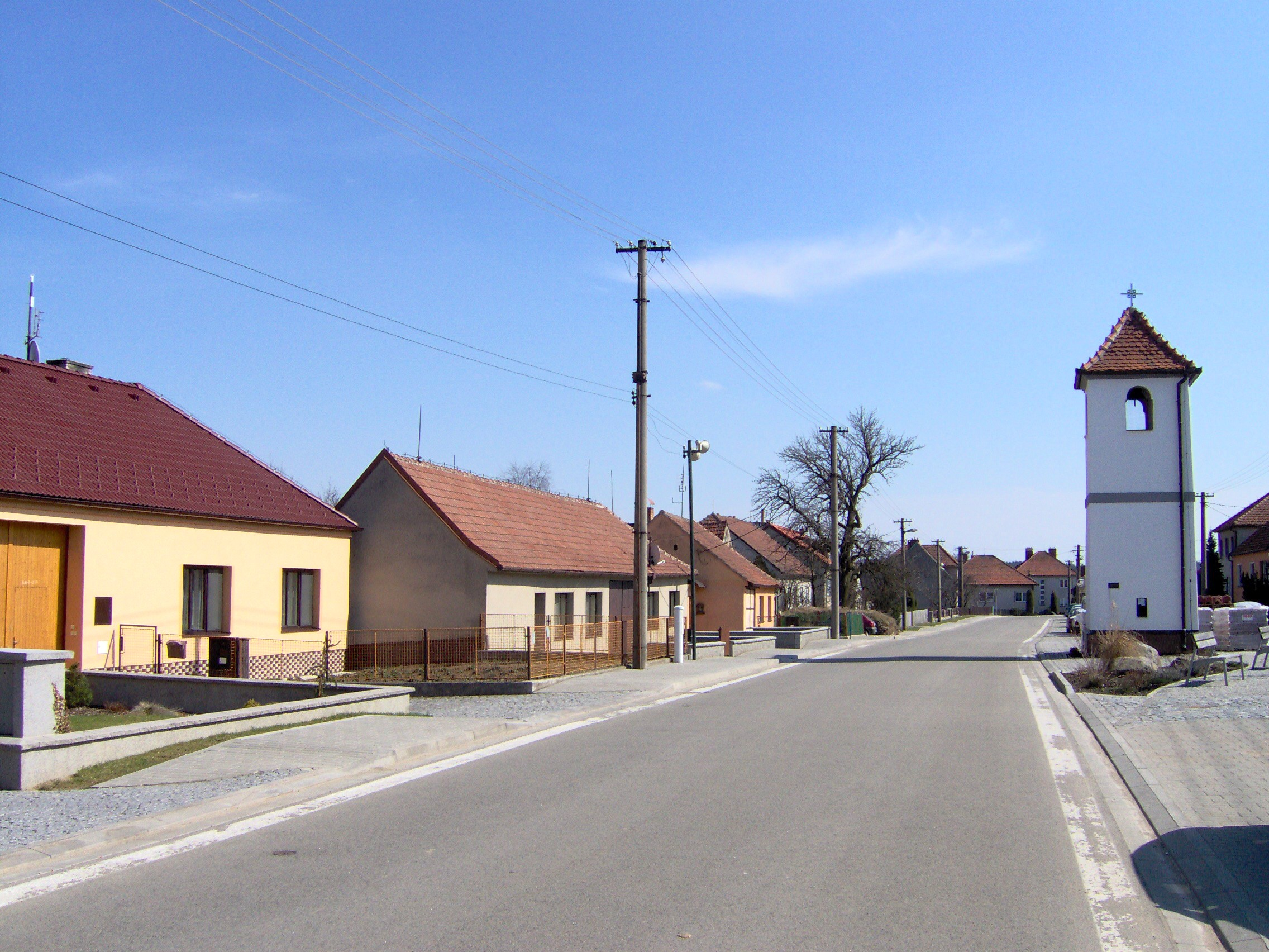 Vlkov village, Žďár nad Sázavou District, Czech Republic